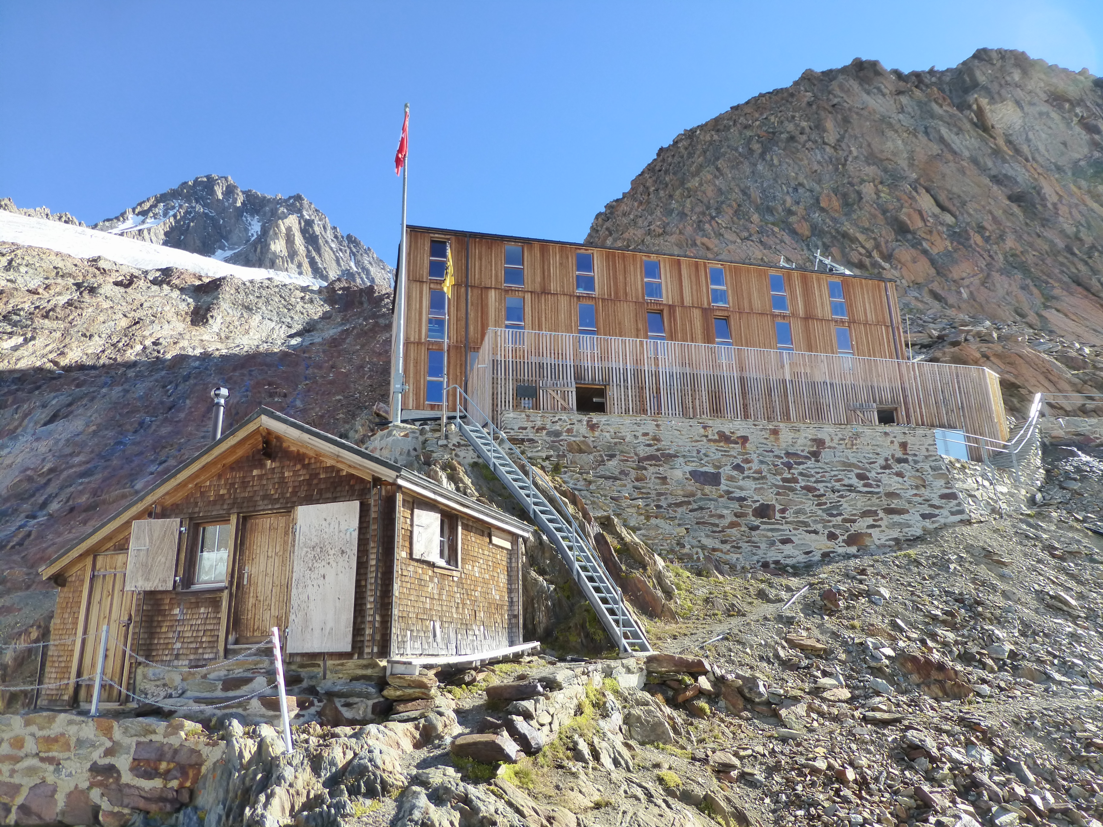 Finsteraarhornhuette from below, viewing eastbound. Left in front is the old hut, now used as the hut's winter room, left in the back the summit of Finsteraarhorn can be seen